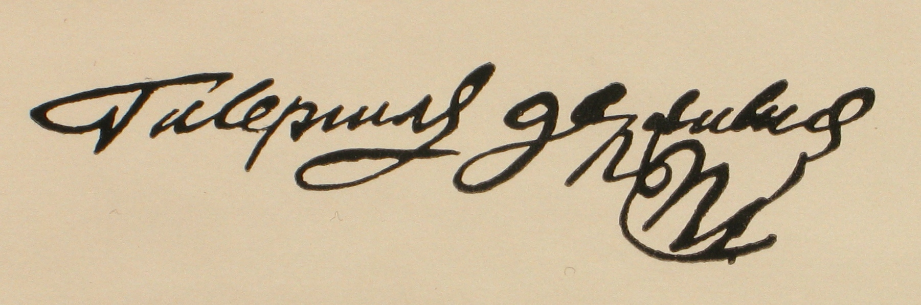 Gavriil Derzhavin's signature